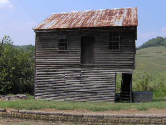 Front view of Swaggerty Blockhouse (from US-321/US-411) near Parrottsville, in the U.S. state of Tennessee. The top story originally cantilevered out on all sides, but has been partially planked in on this side. The stairs on the right lead to the top floor. The dense brush that spans the photo behind the blockhouse marks the direction of Clear Creek.